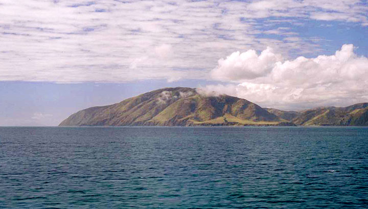 Cape Terawhiti, New Zealand, seen from the Cook Strait. Photograph taken in February 2000 by James Dignan.